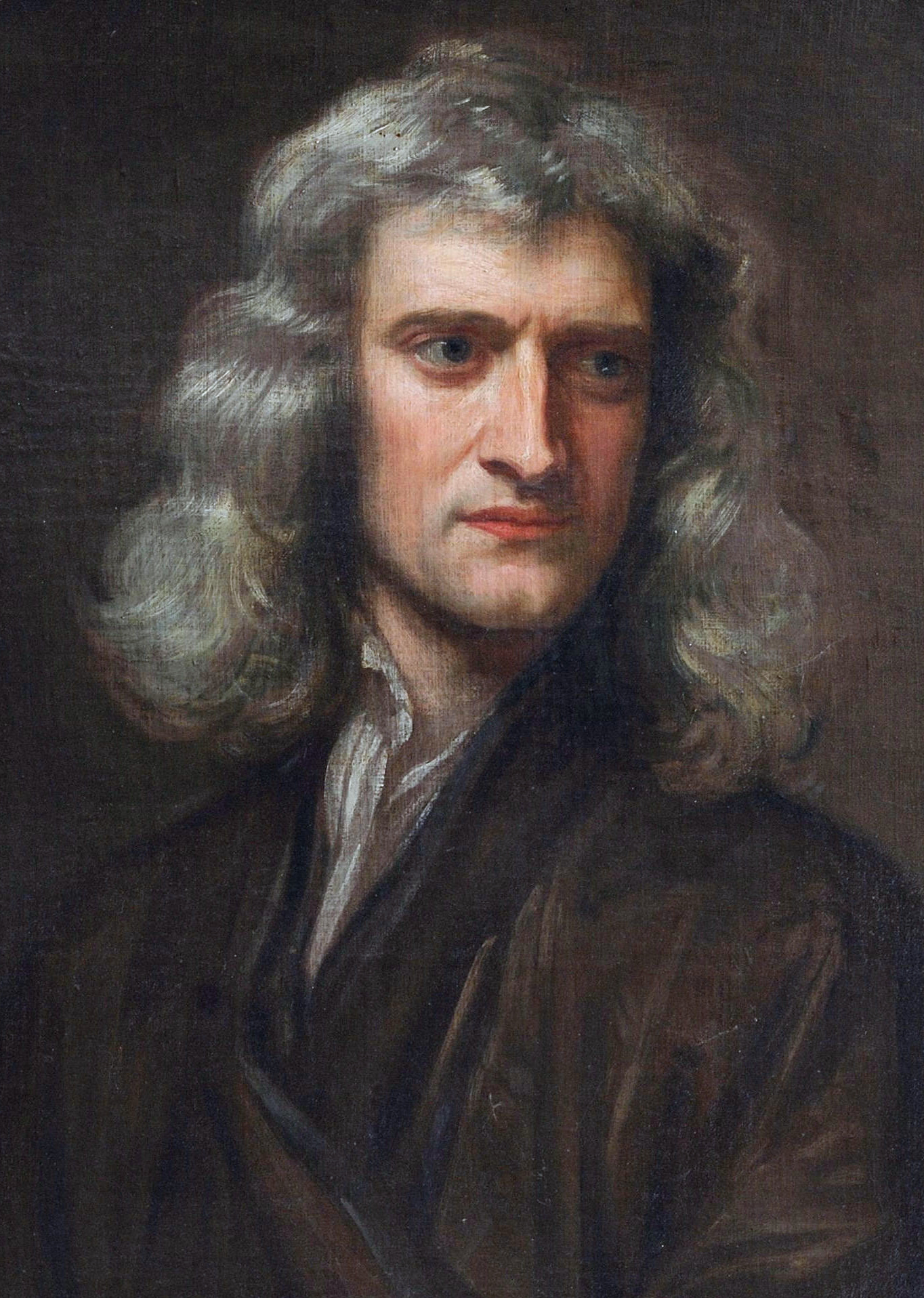 Portrait of Isaac Newton (1642-1727).This a copy of a painting by Sir Godfrey Kneller (1689).